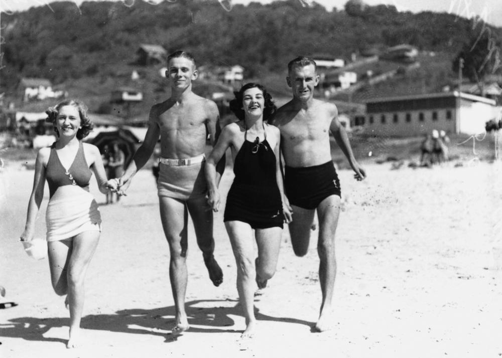 Beachgoers at Burleigh Heads, 1938. The party of beachgoers includes Mr and Mrs Roy Lores, Hylda Lores and Ron Barnett. The group runs across the sand. They wear a variety of swimwear.